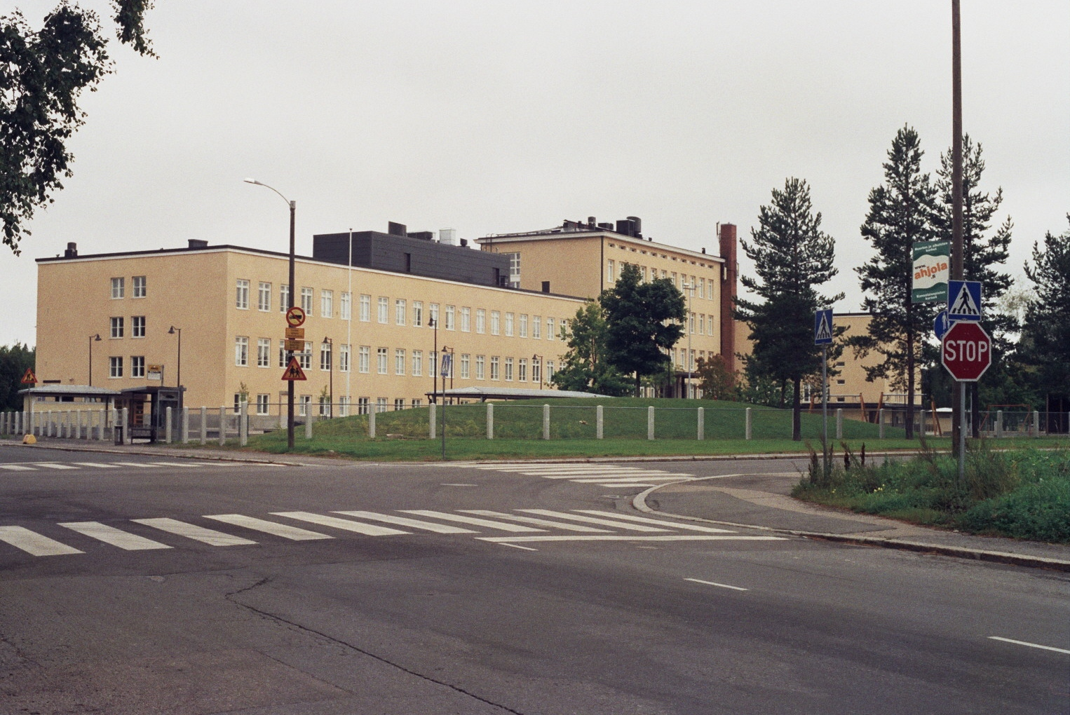 The school of Nekala in the city of Tampere in Finland. The building was originally constructed in around 1931 and expanded in 1951.